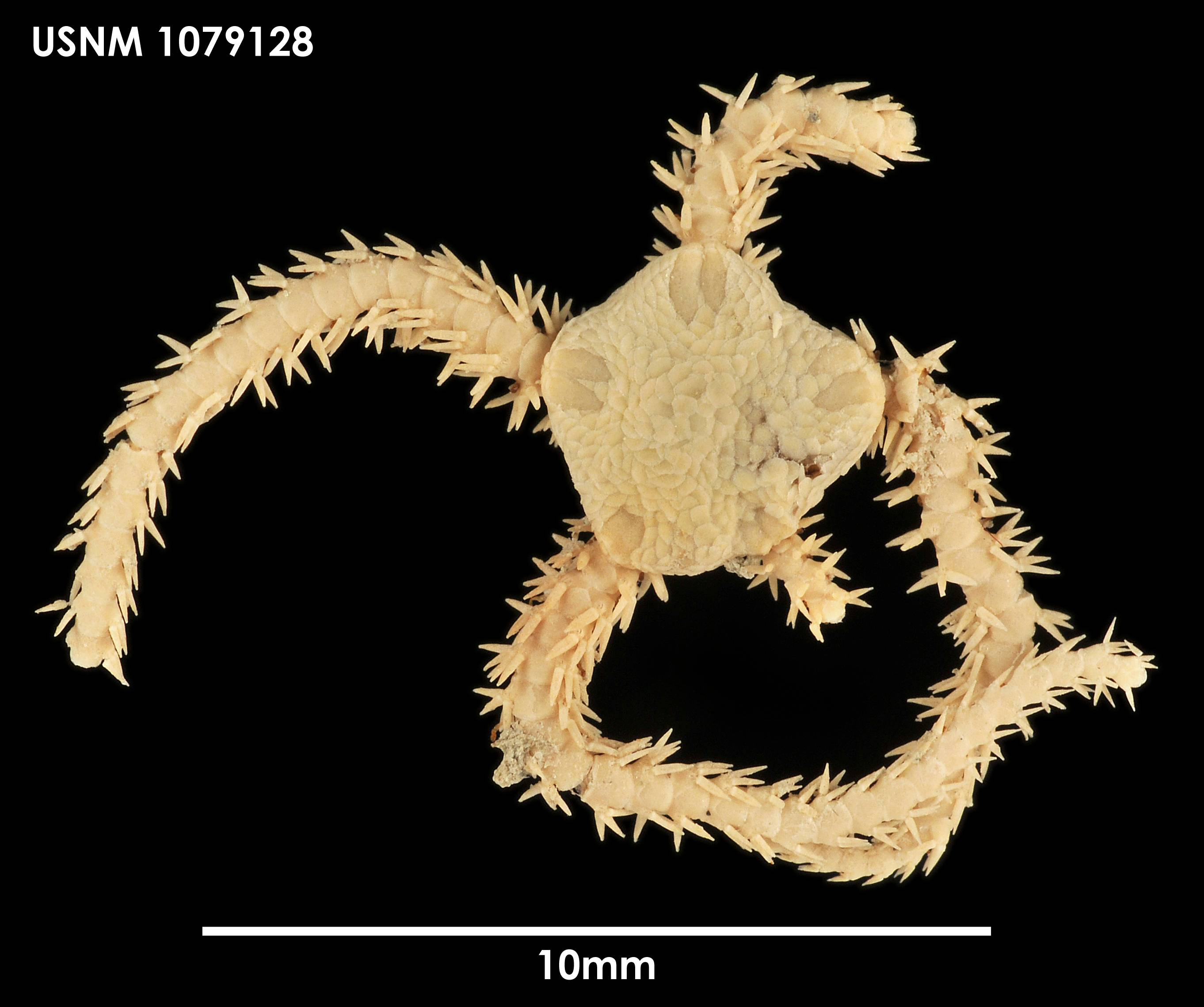 PRESERVED_SPECIMEN; Preparations: Dry; Amphiura angularis Lyman, 1879; Individual count: 2; Type status: (no data); Identified by: Smirnov, Igor S.; Event date: 19730309T00:00:00Z; Additional description: Dorsal view, dry specimen